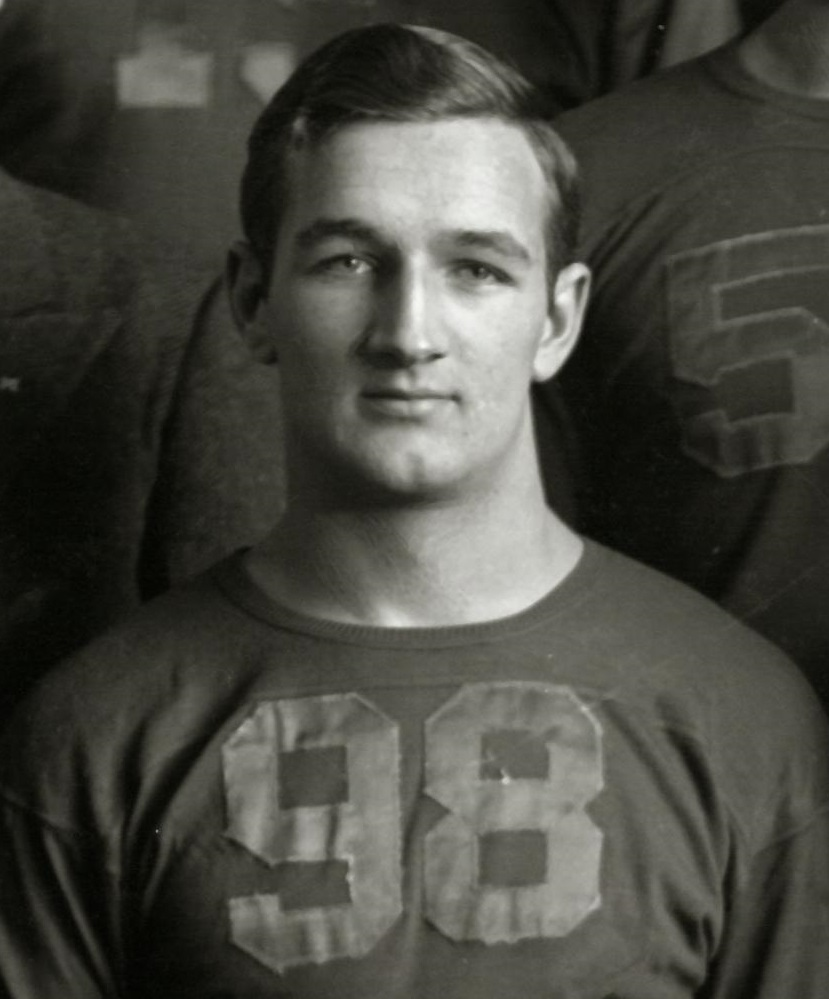 Photograph of University of Michigan athlete Tom Harmon cropped from team portrait of 1938 Michigan Wolverines football team